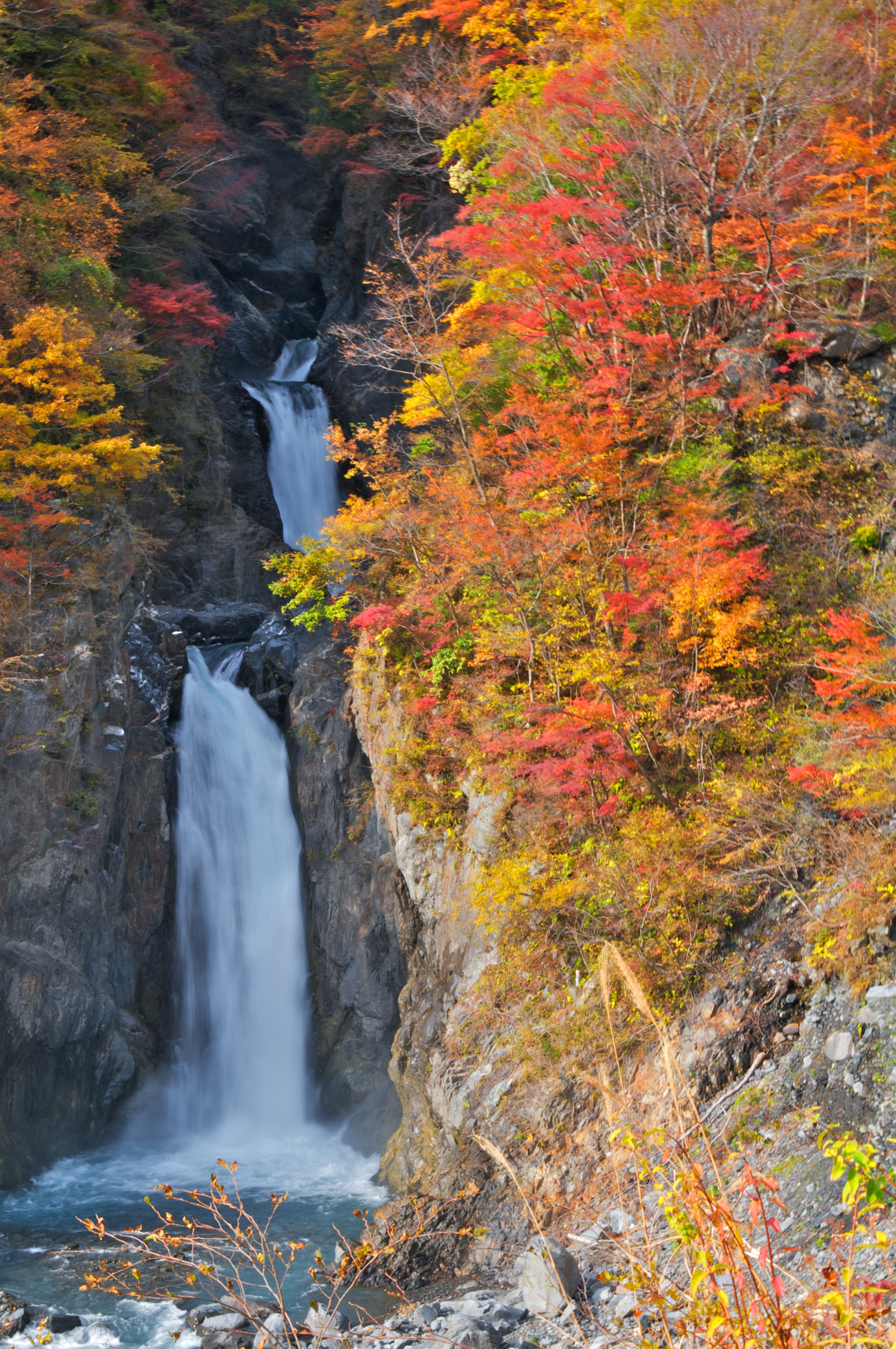 Akamizu Falls in Aoi-ku, Shizuoka, Shizuoka Prefecture, Japan.